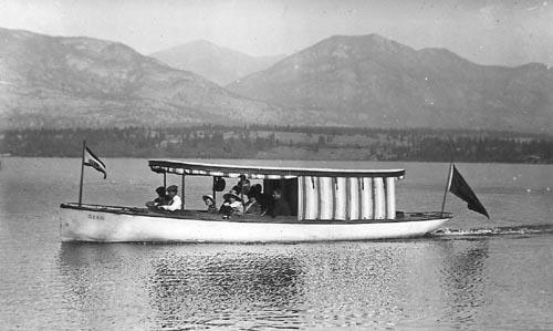 Gian, a gasoline-engine launch, on Lake Windermere, British Columbia, September 22, 1906